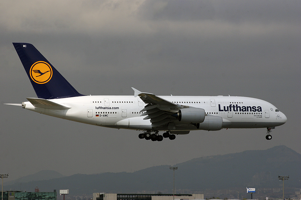 Landing at runway 07L Construction Number 044